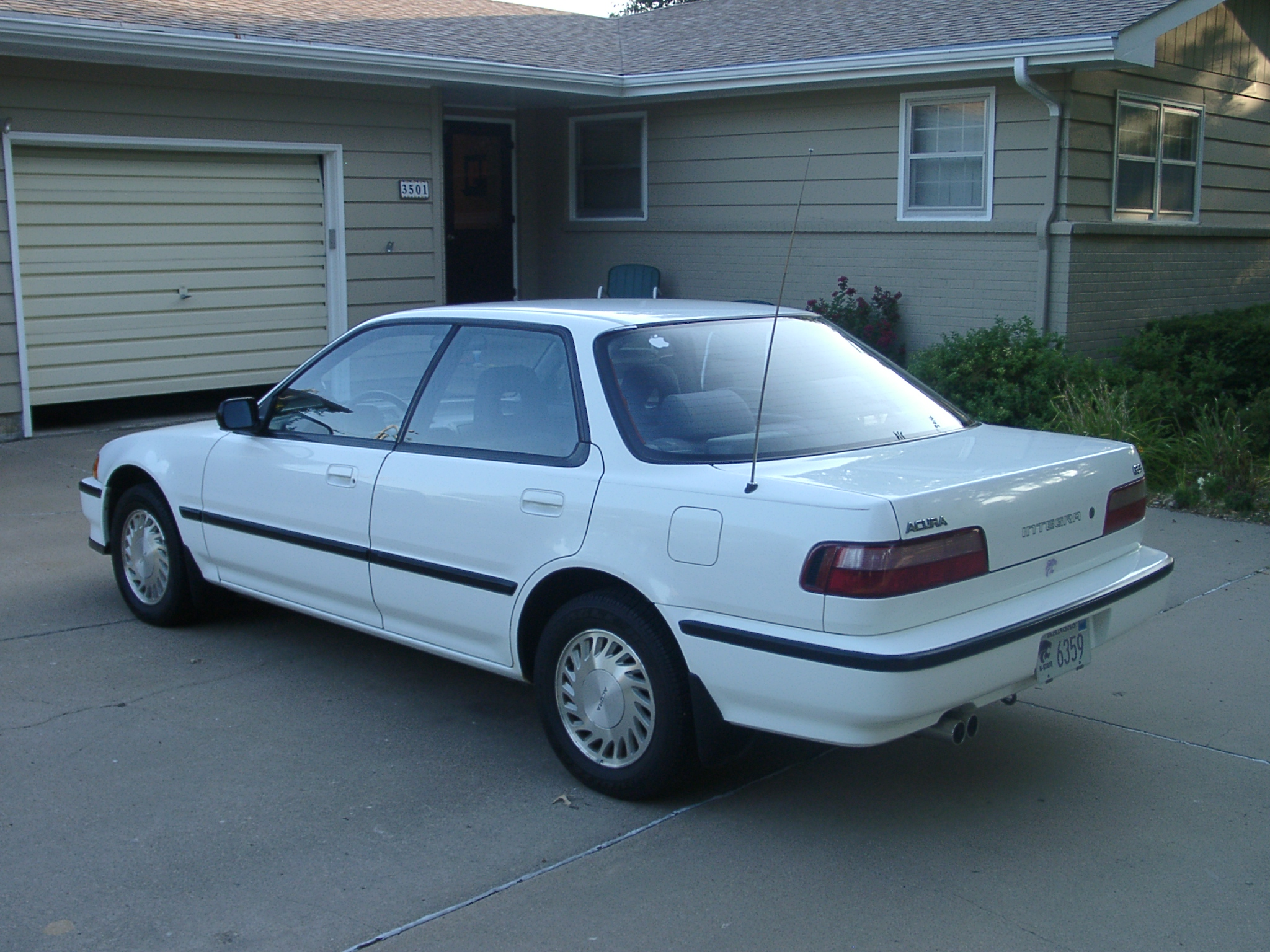 This is a shot of the back of the 4-door 1990 Acura Integra GS. It is in great shape, even with over 180,000 miles on it. It has very modern lines, and has an Apple logo bumper-sticker. Taken in 2005 by Colin Private Collection